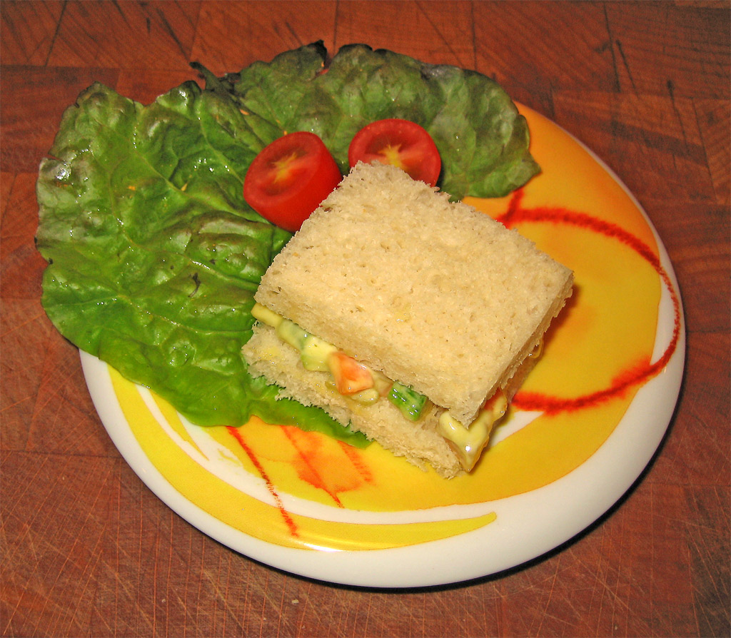 Tramezzino sandwich